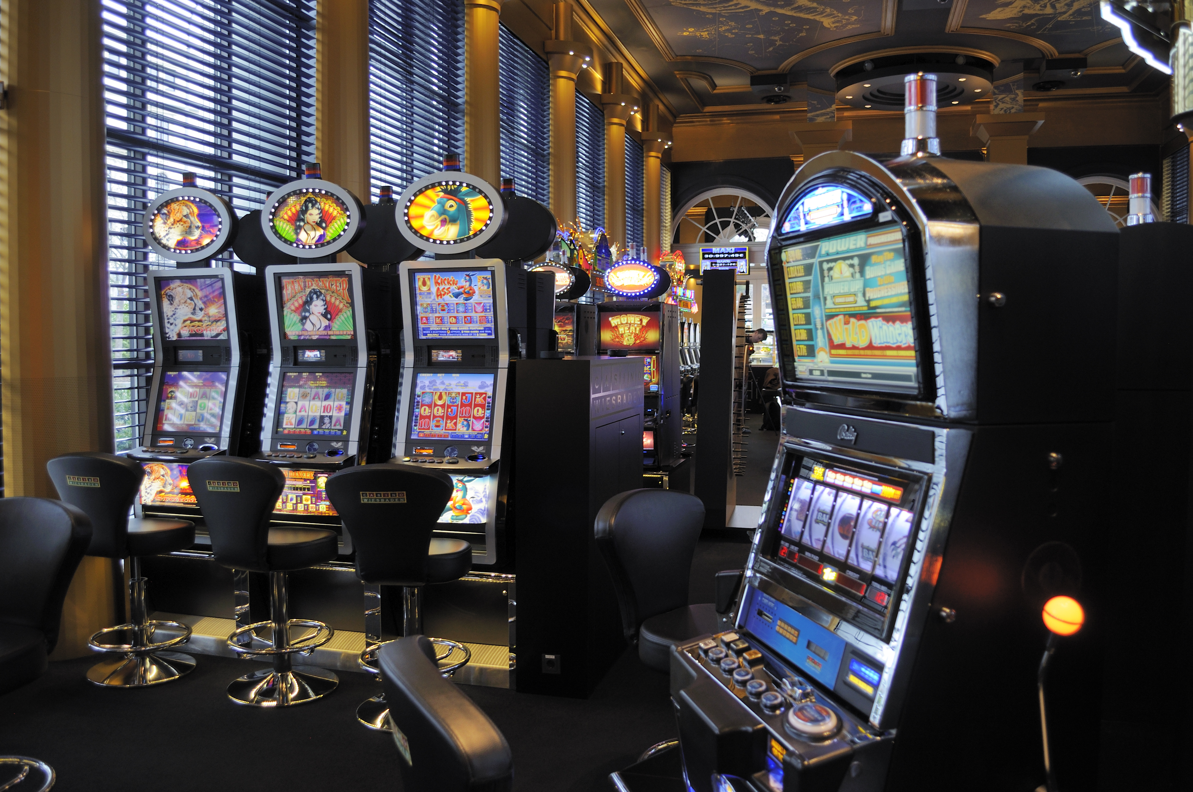 Spielbank Wiesbaden (Germany).